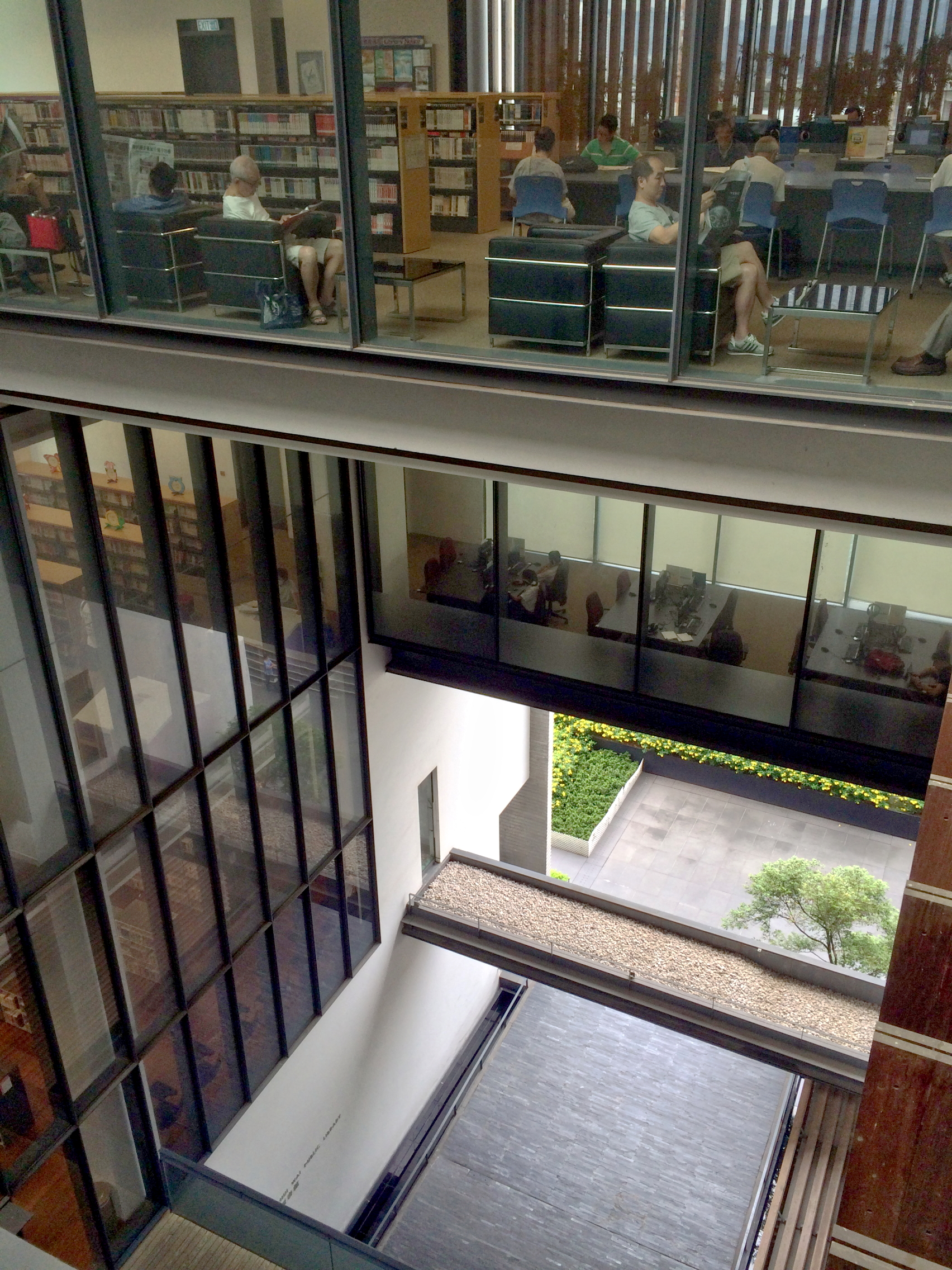 Ping Shan Tin Shui Wai Public Library Void